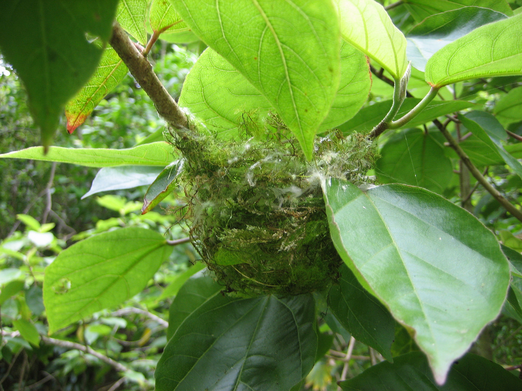 Birds nest found on Kaua'i. (Identified as a Japanese White-eye nest; located in Kaua'i, in Limahuli valley at about 500' elevation.)